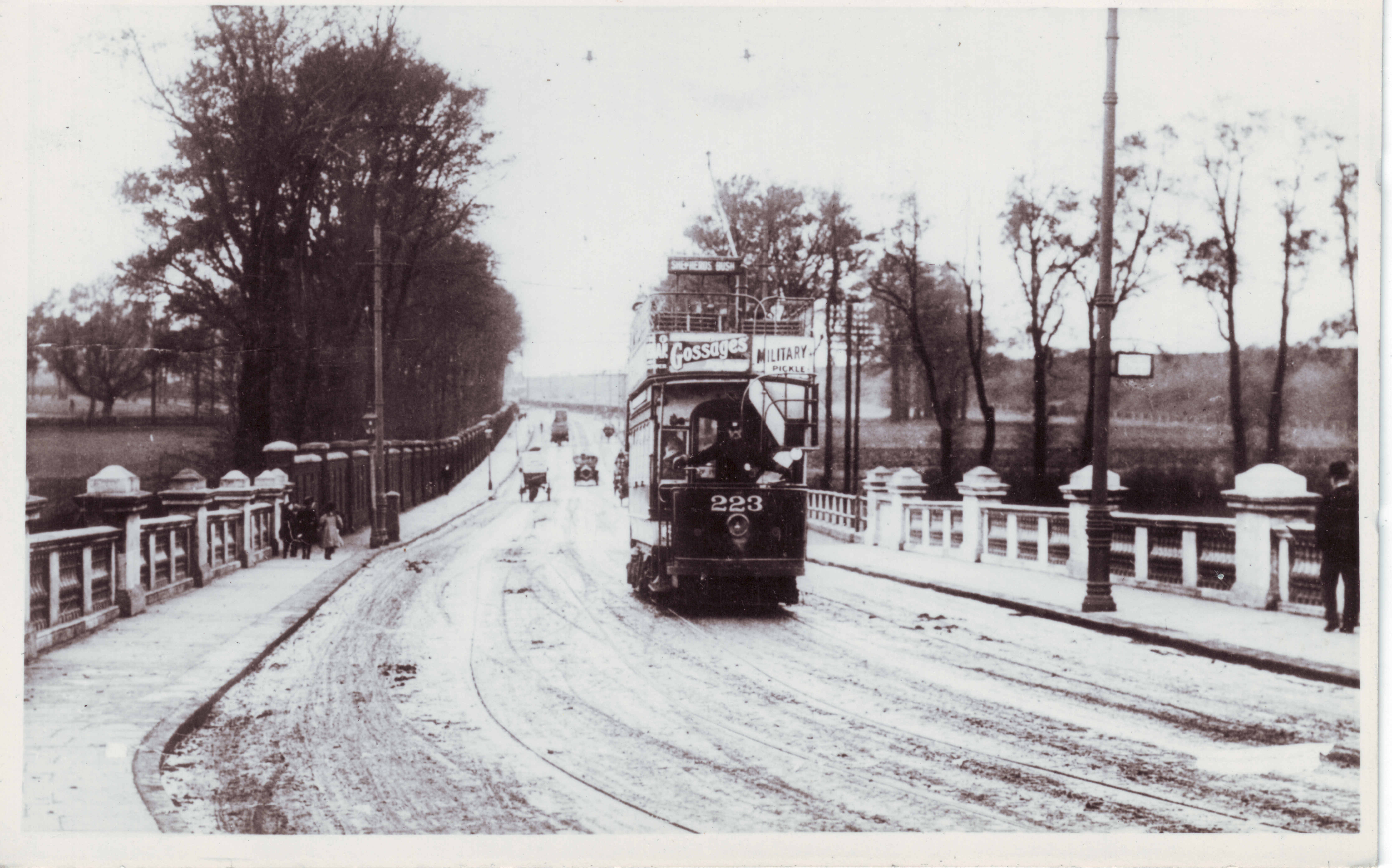 Post Card Date: c. 1906. Looking west along the Uxbridge Road towards Southall as a London United Tramway Company car crosses the river Brent via Hanwell Bridge, which had to be widened on the north side to provide the tramcars with enough clearance, as specified by the Urban District Councils. Notice that walls of St Bernard's Hospital, extended all the way to the bridge in those days. The white stuff on the roads is snow. Image obtained with thanks from the private collection of Mr. P. H. Lang